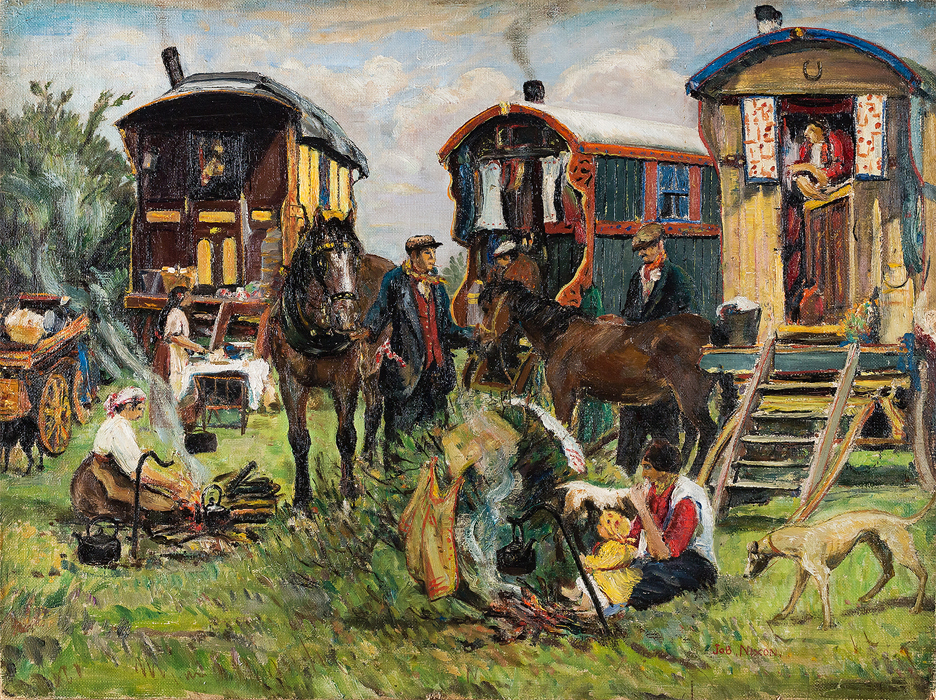 Offered for sale by Abbott and Holder in February 2020 when it was described as "‘Gypsy Encampment’. Oil on canvas. Signed. Exhibited: ‘Job Nixon Paintings’, Colnaghi, March 1939, No.7. 18x24 inches."